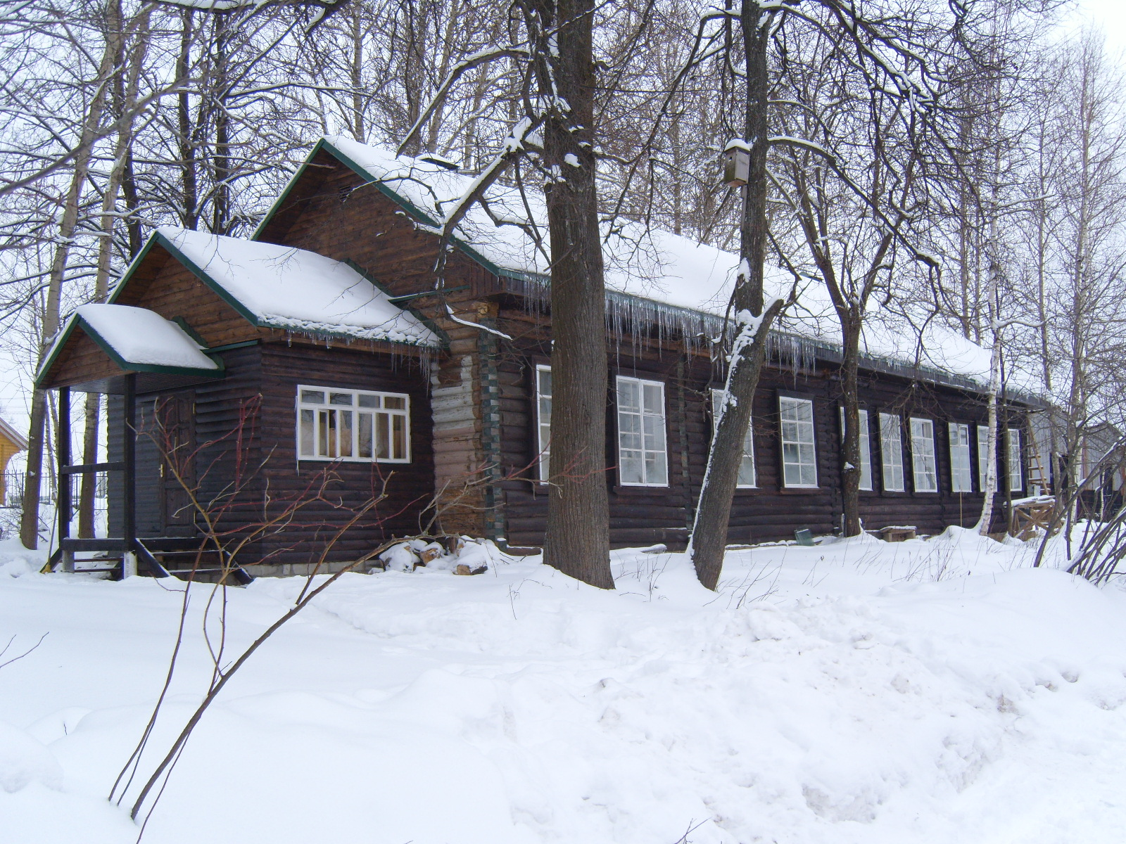 Building in toy fabric in Bogorodskoye village (Sergievo-Posadskiy district of Moscow Oblast)